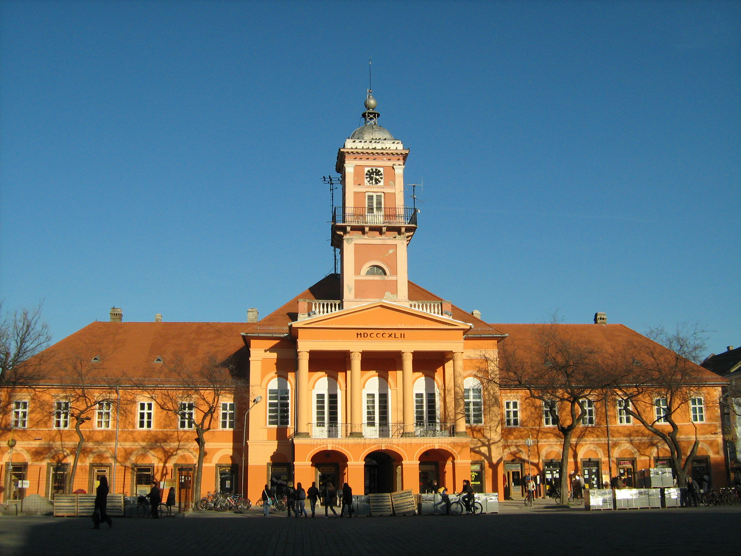 Old Town Hall in Sombor